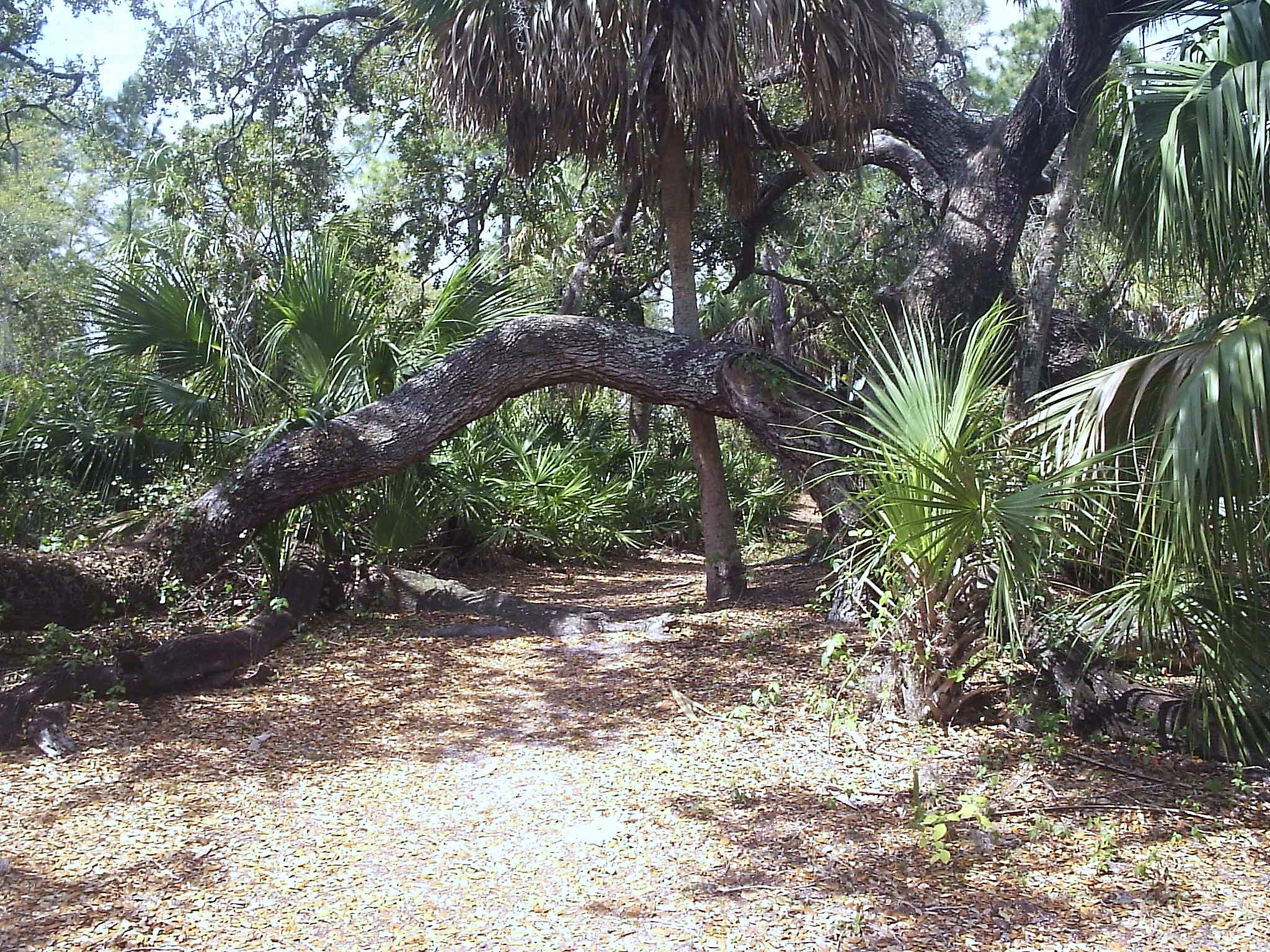 Taken by me at Caladesi Island State Park, Florida. Nature trail with live oak branch forming arch over trail. Olympus Camedia D-395 digital camera.Mikereichold 22:20, 14 March 2006 (UTC)